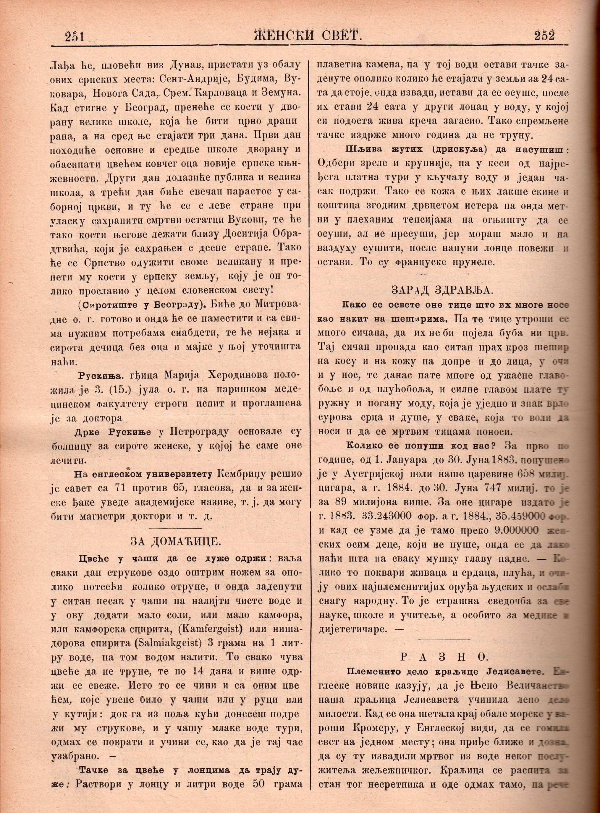 Ženski svet, magazine, number 8, page 252, 1887, Novi Sad.